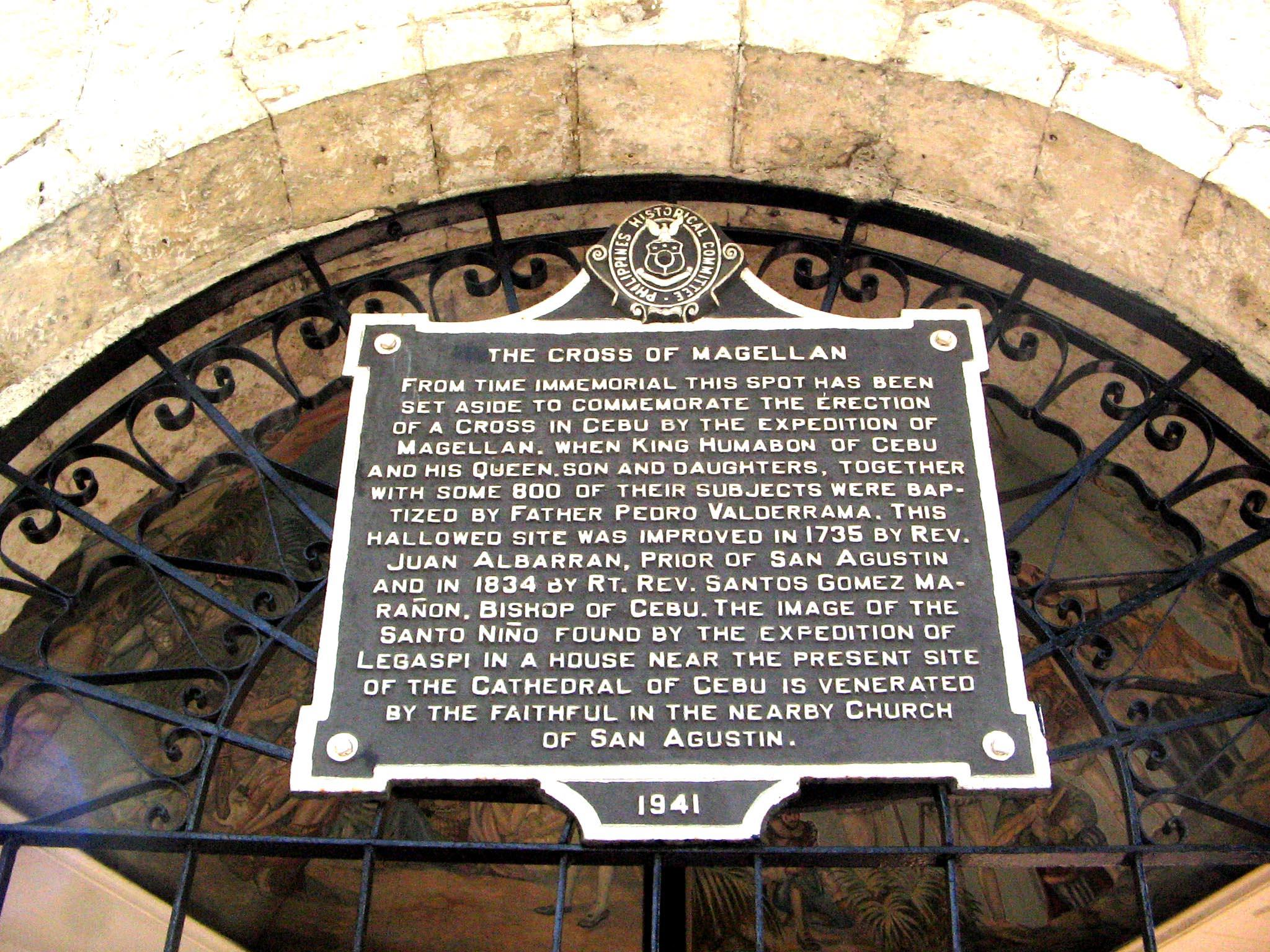 Magellans cross entrance, Cebu City, Philippines